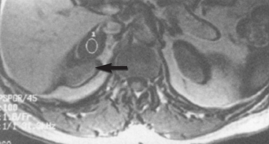 MRI with chemical shift artifact. For context, see: MRI artifact